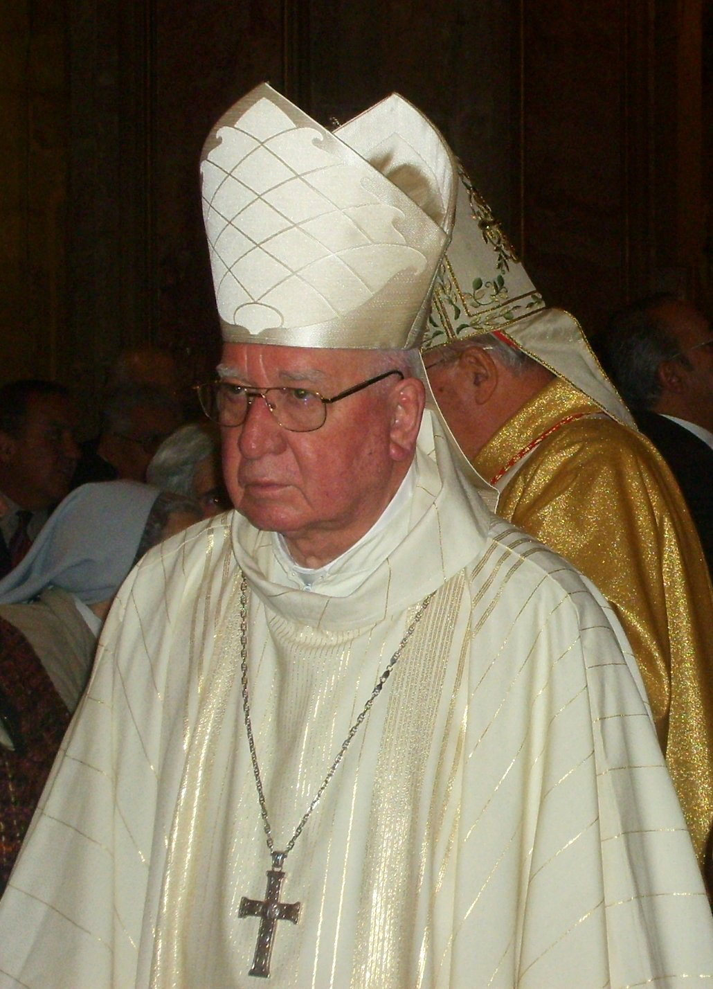 Jorge Arturo Agustín Medina Estévez